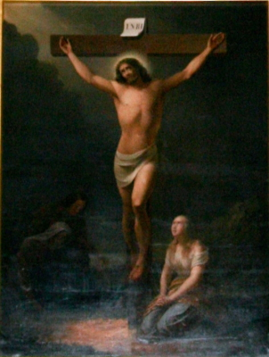 Jesus on cross, The altar painting in the Kuopio Cathedral by Berndt Abraham Godenhjelm (1799–1881), Kuopio, Finland.